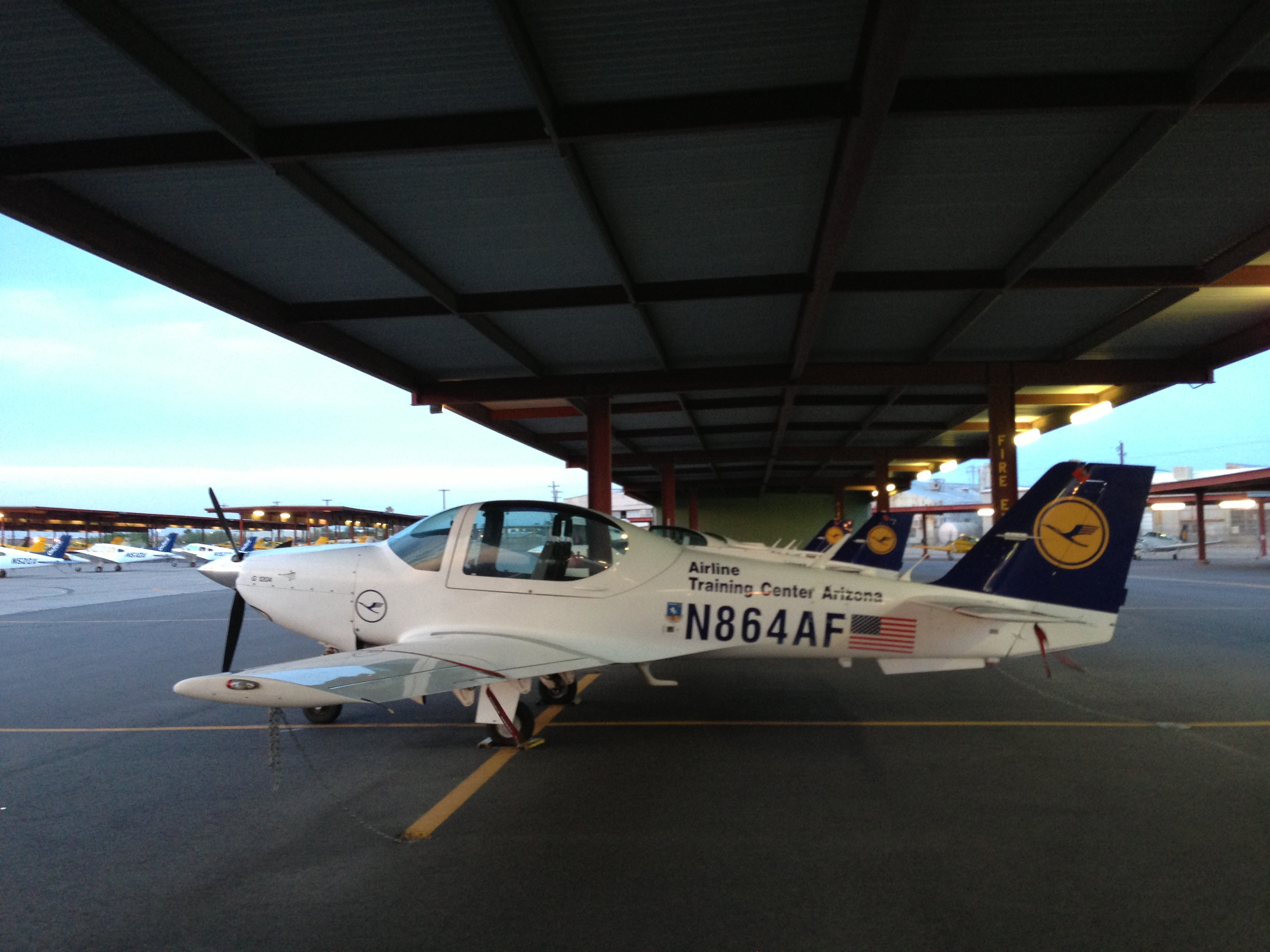 Lufthansa Flight Training's ramp